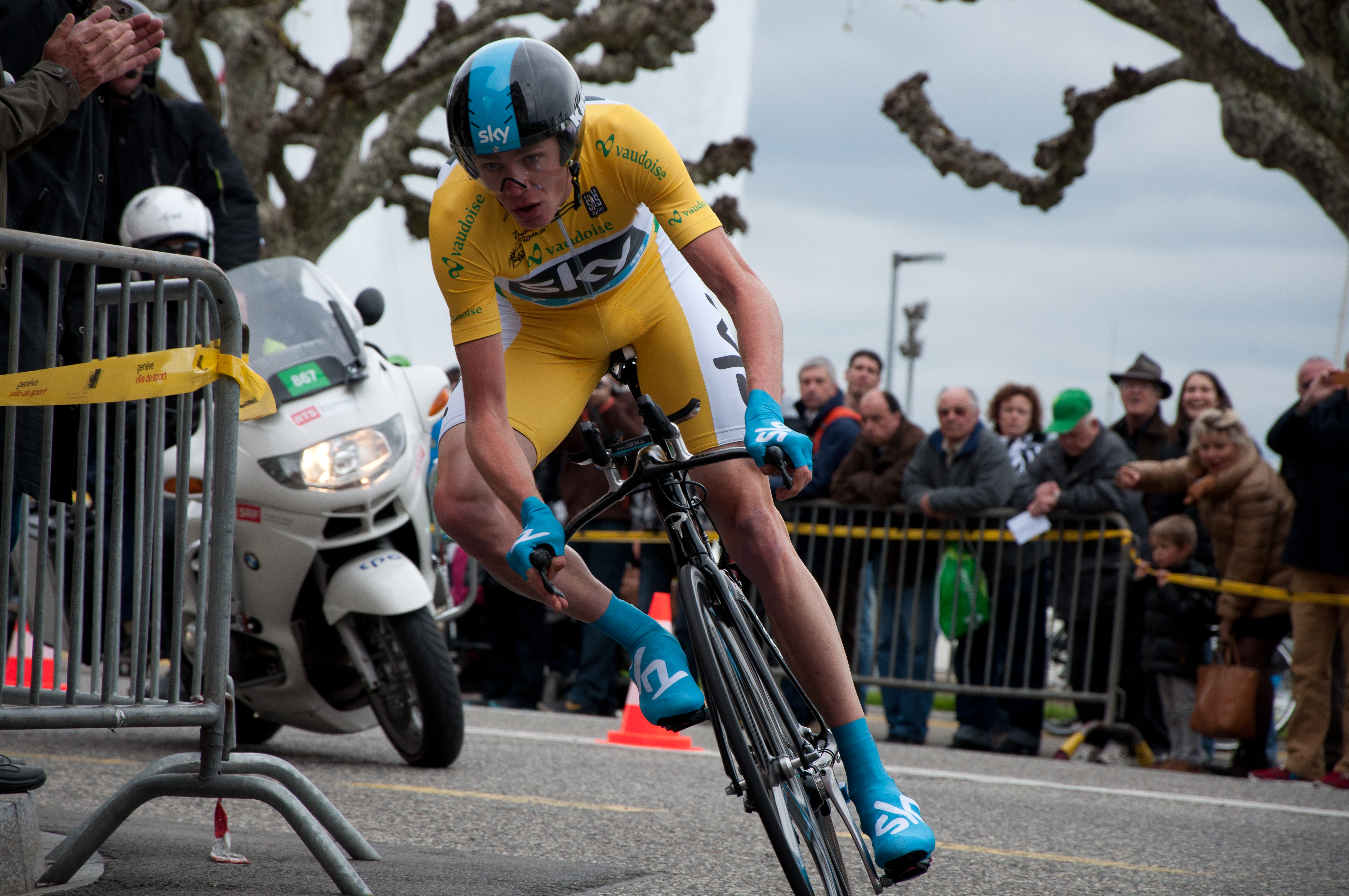 Christopher Froome racing the fifth stage (time trial) of Tour de Romandie 2013 in Genava.